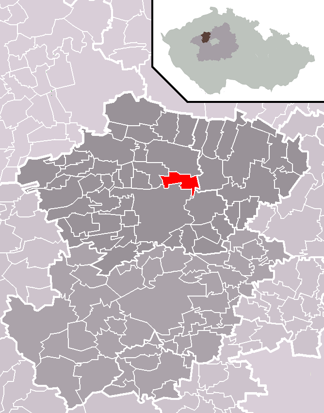 Location of Beřovice municipality within Kladno District and administrative area of Slaný as a Municipality with Extended Competence.